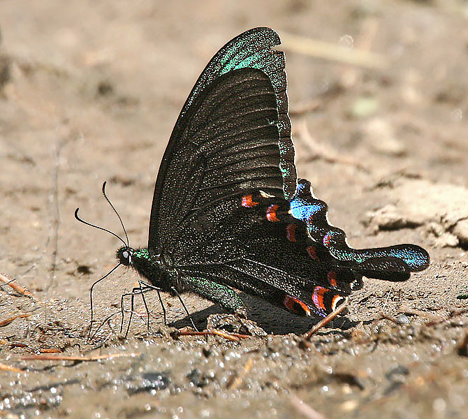 Paris Peacock Papilio paris . Shot taken at Kasol(around 6500 ft.), Kullu distt. of Himachal Pradesh, India during Sar Pass Trek.